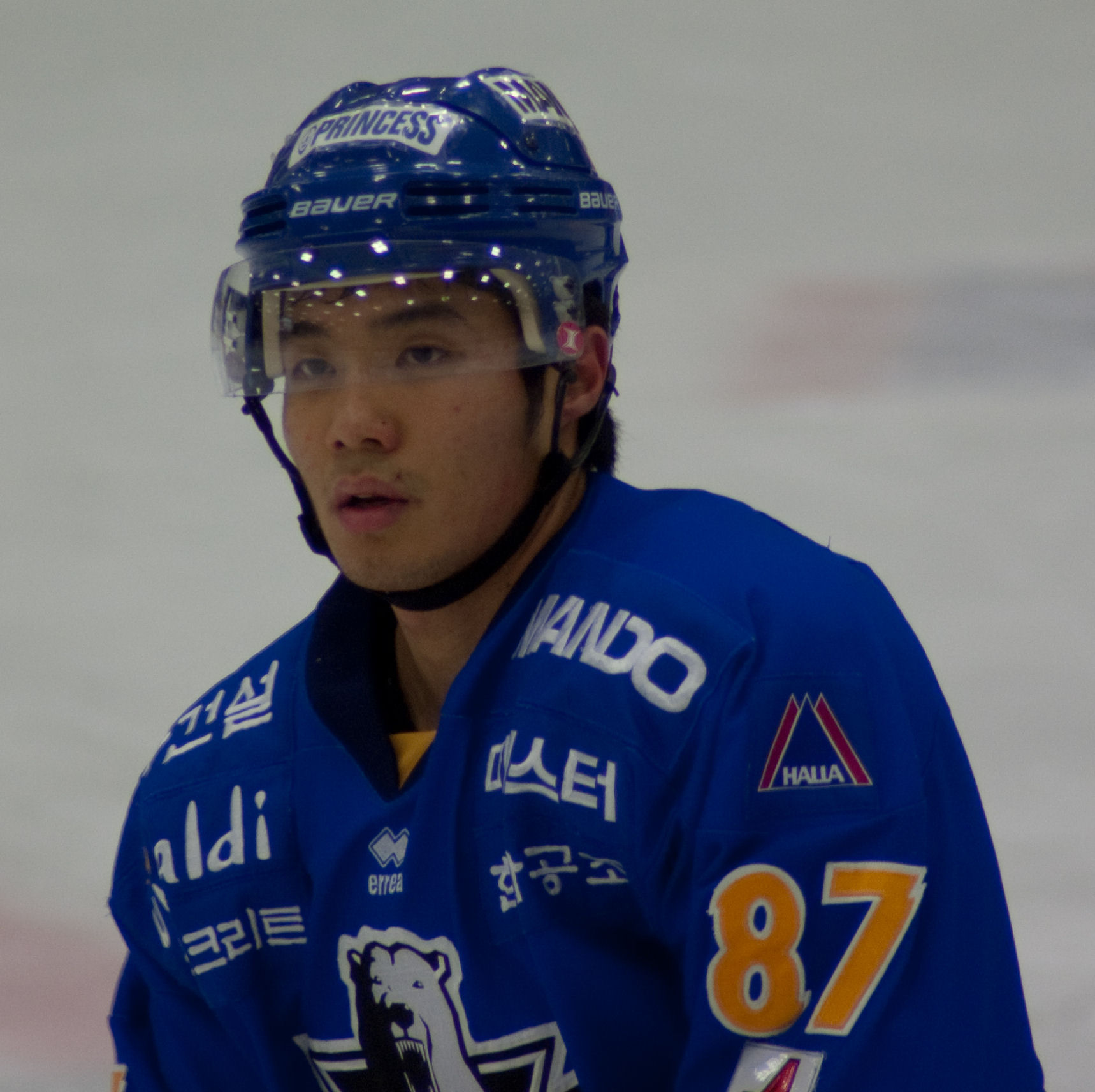 Cho Min-ho before a game for the Anyang Halla